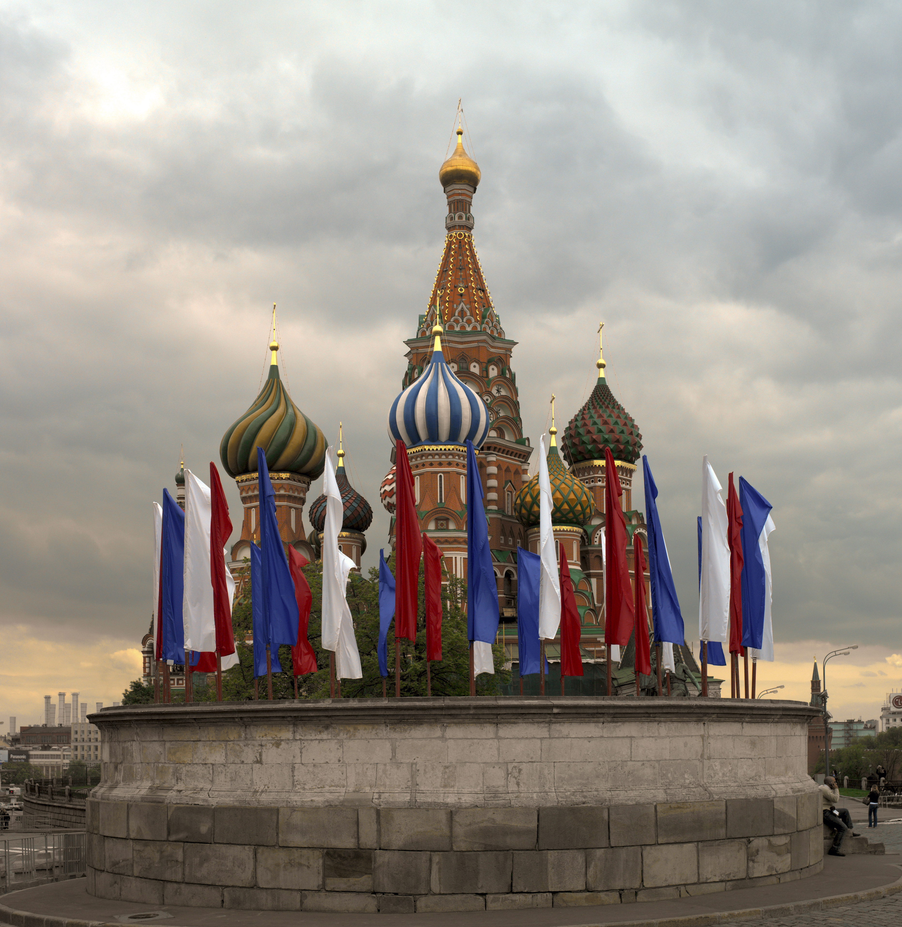 View of Saint Basil's Cathedral in Red Square with flags to celebrate Victory Day (Moscow, 2004).